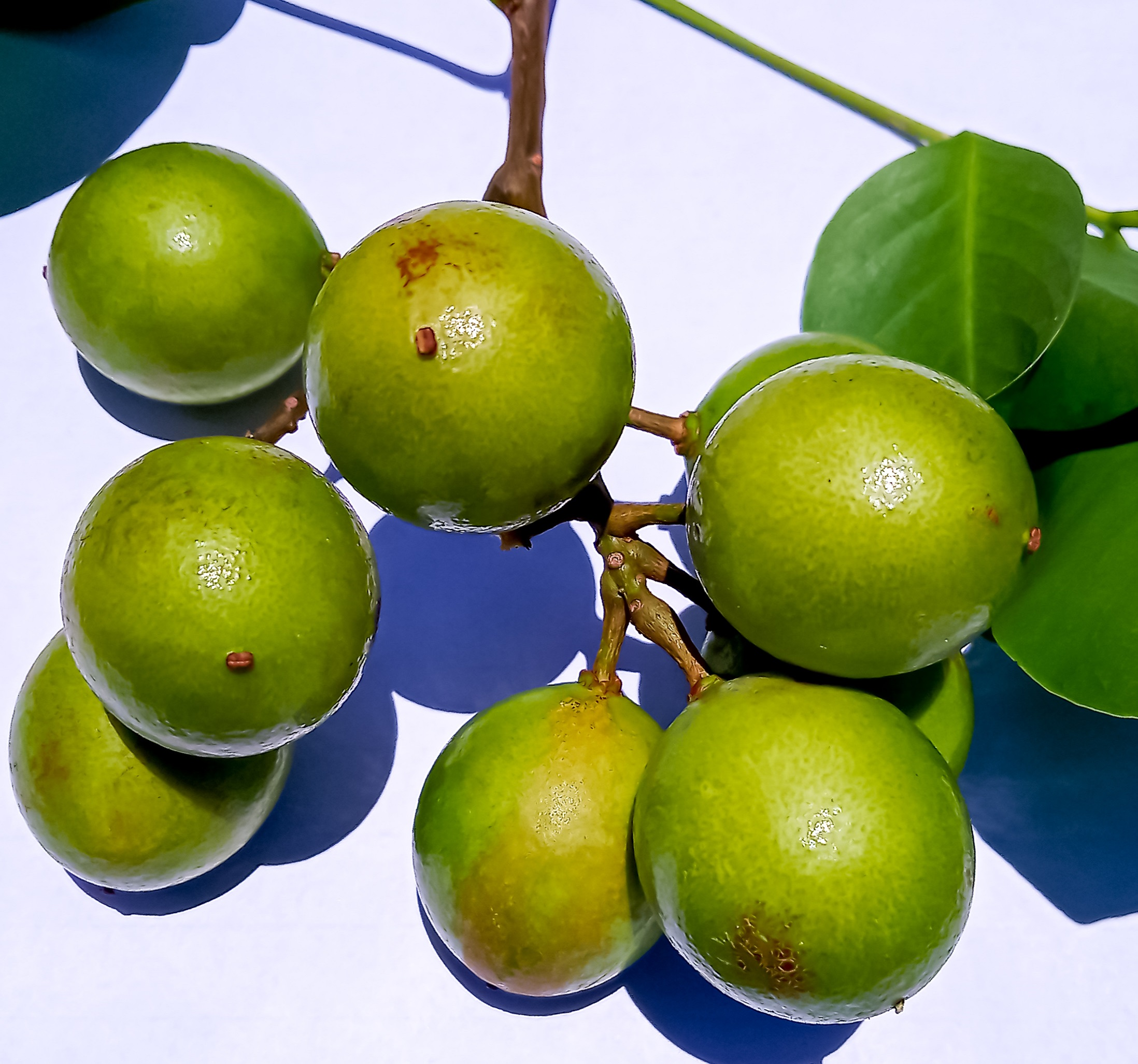 Melicoccus bijugatus